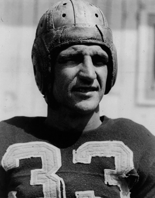 Sammy Baugh - Washington Redskin Quarterback